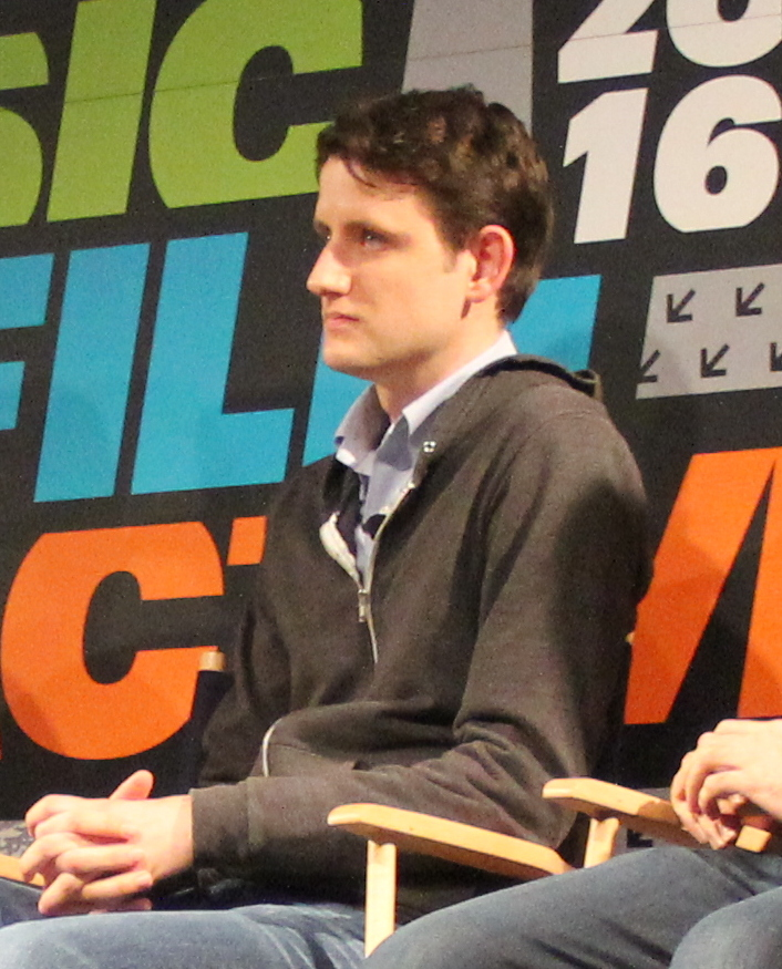 Zach Woods at "SILICON VALLEY: Making the World a Better Place", a panel at SXSW 2016 starring the cast and creators of Silicon Valley (TV series).